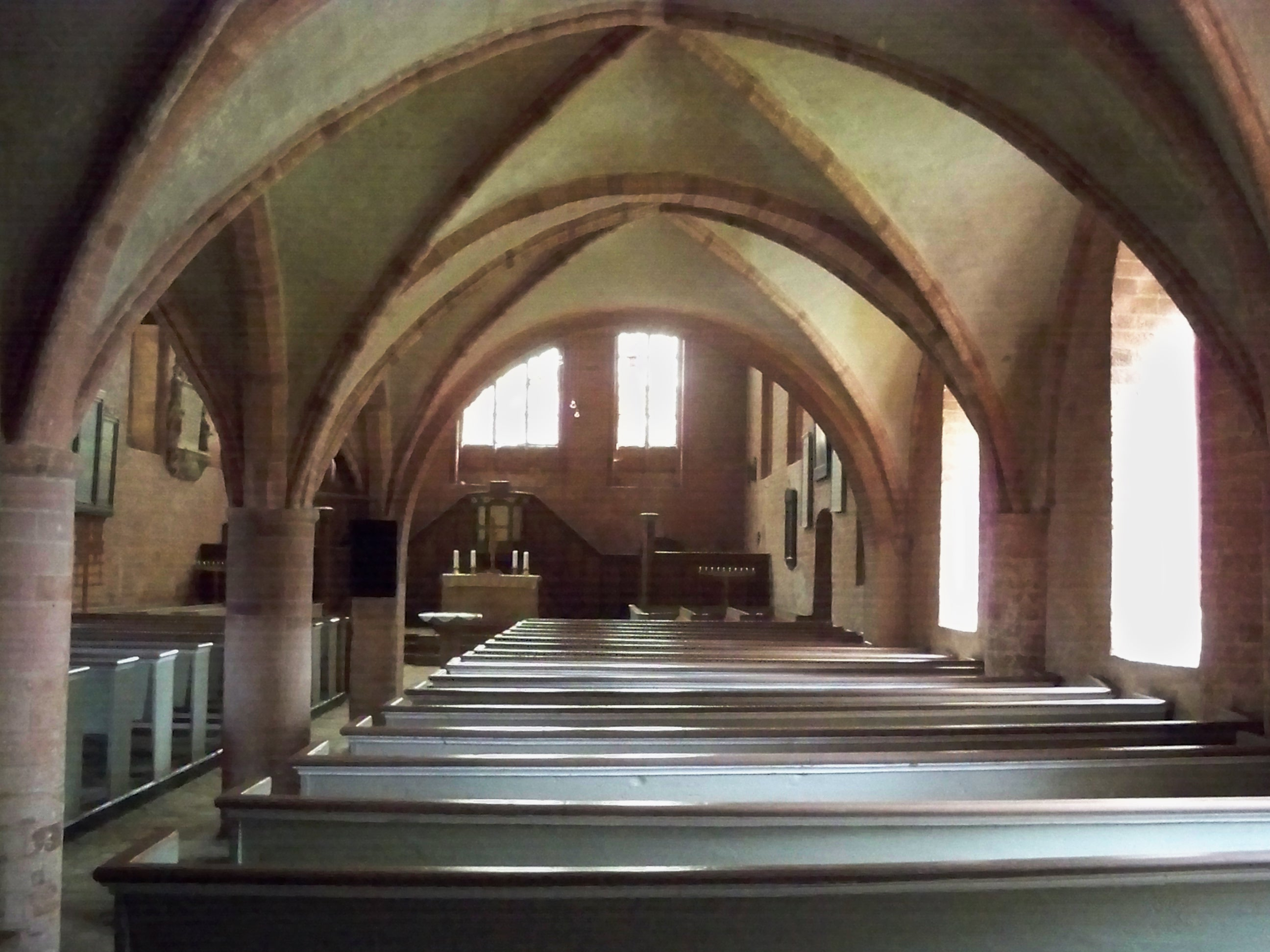 Kloster Neuendorf, Gardelegen, Saxony-Anhalt, interior of Klosterkirche